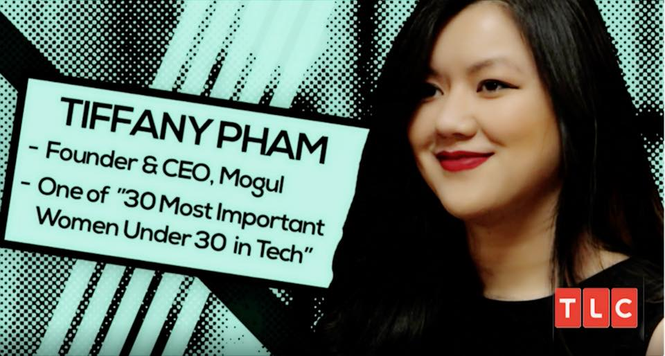 Pham on TLC in 2018.